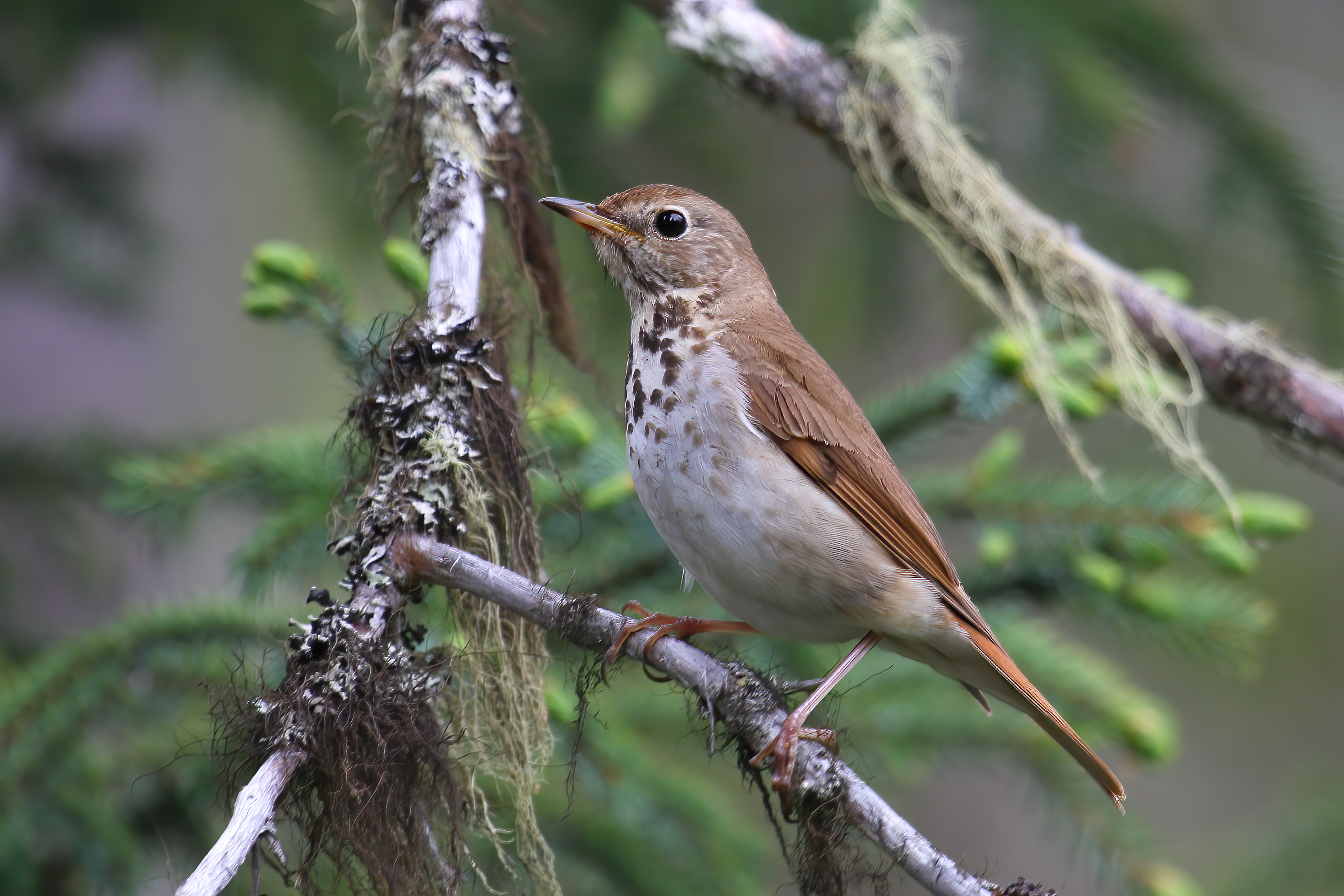 Hermit Thrush, Grands-Jardins National Park, Quebec, Canada.